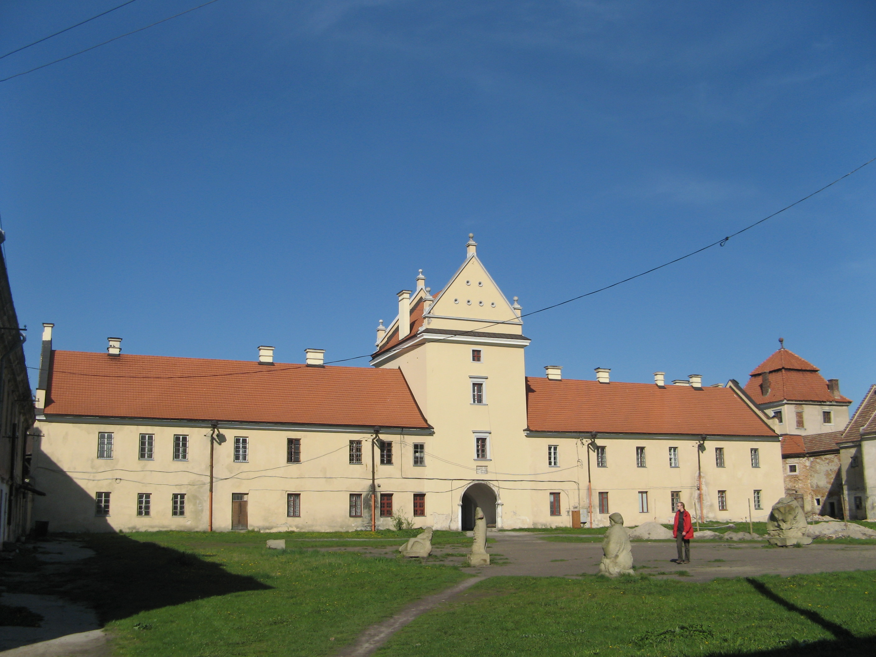 Zhovkva castle